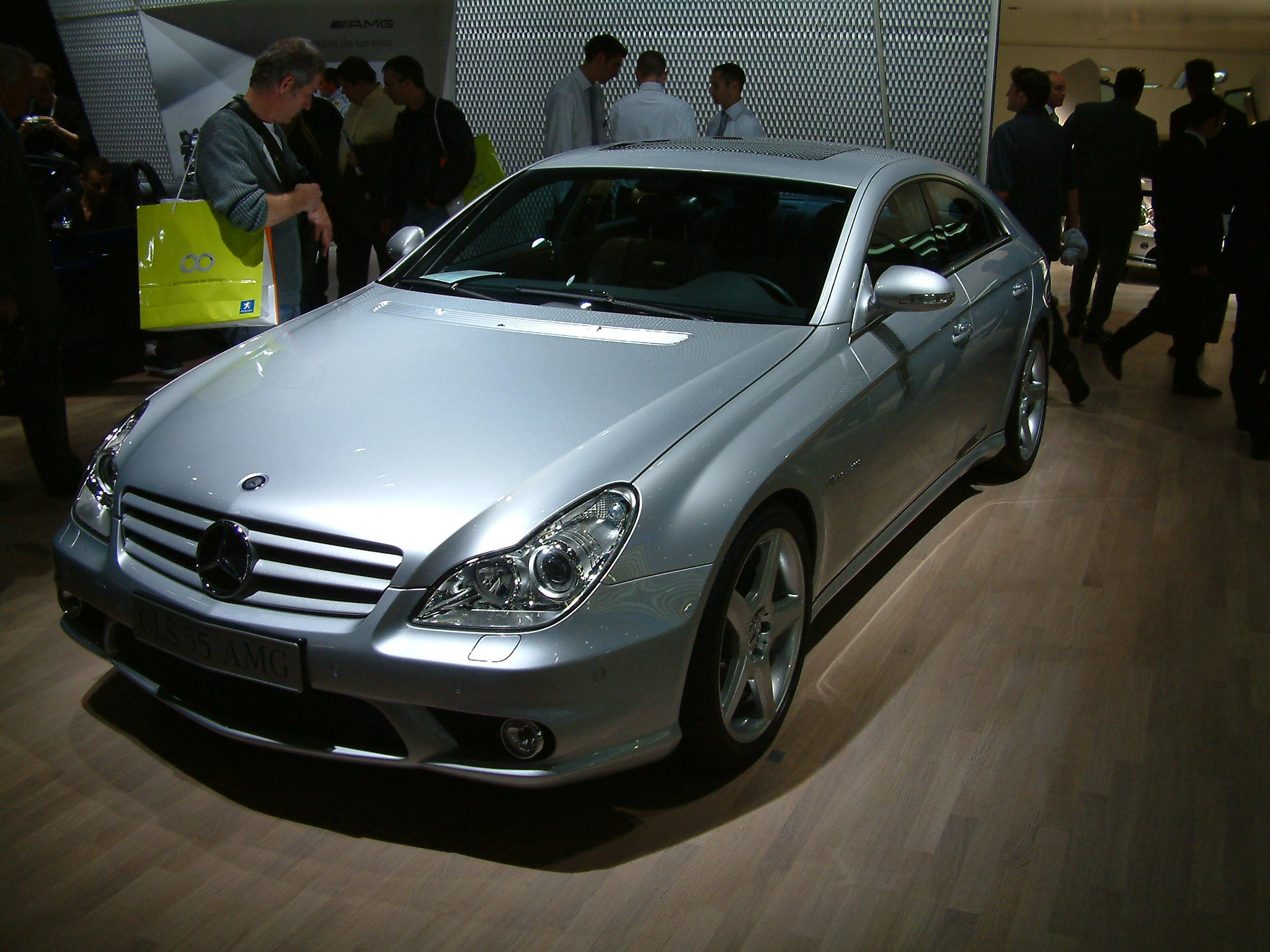 CLS 55 AMG